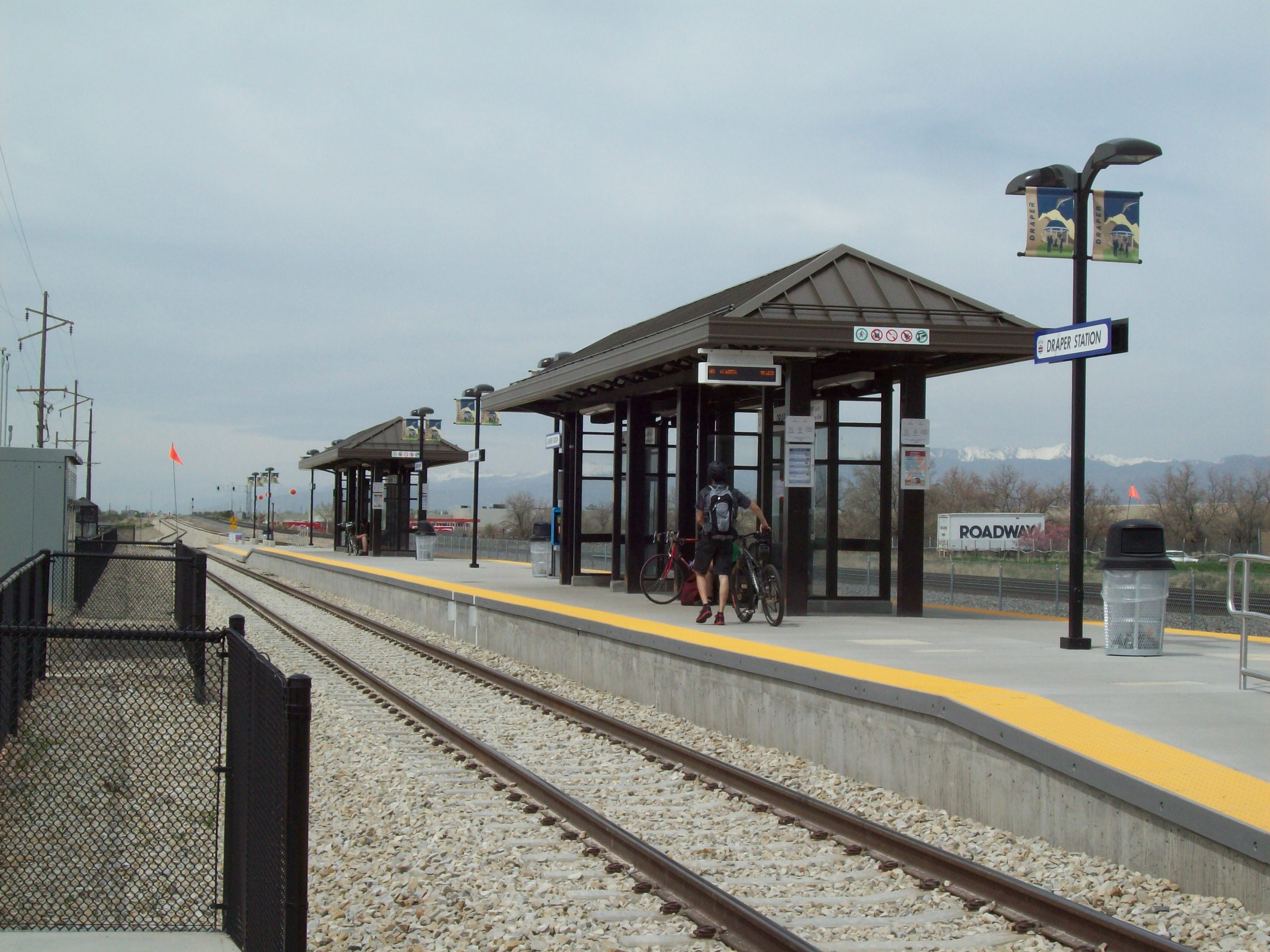 Looking north to the Draper Station platform